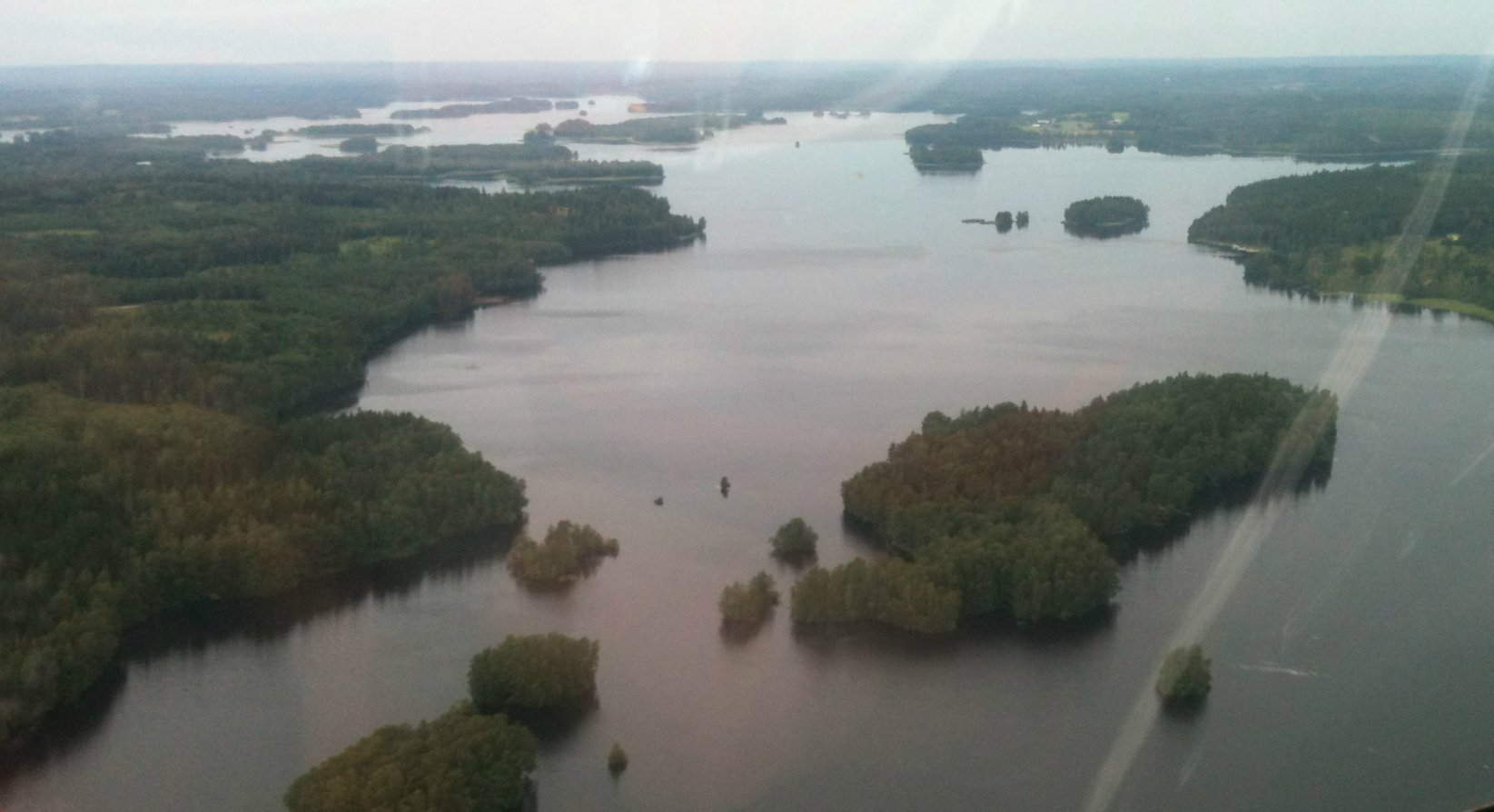 Southern parts of Solgen.